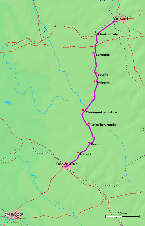 Map of Voie Sacrée, France